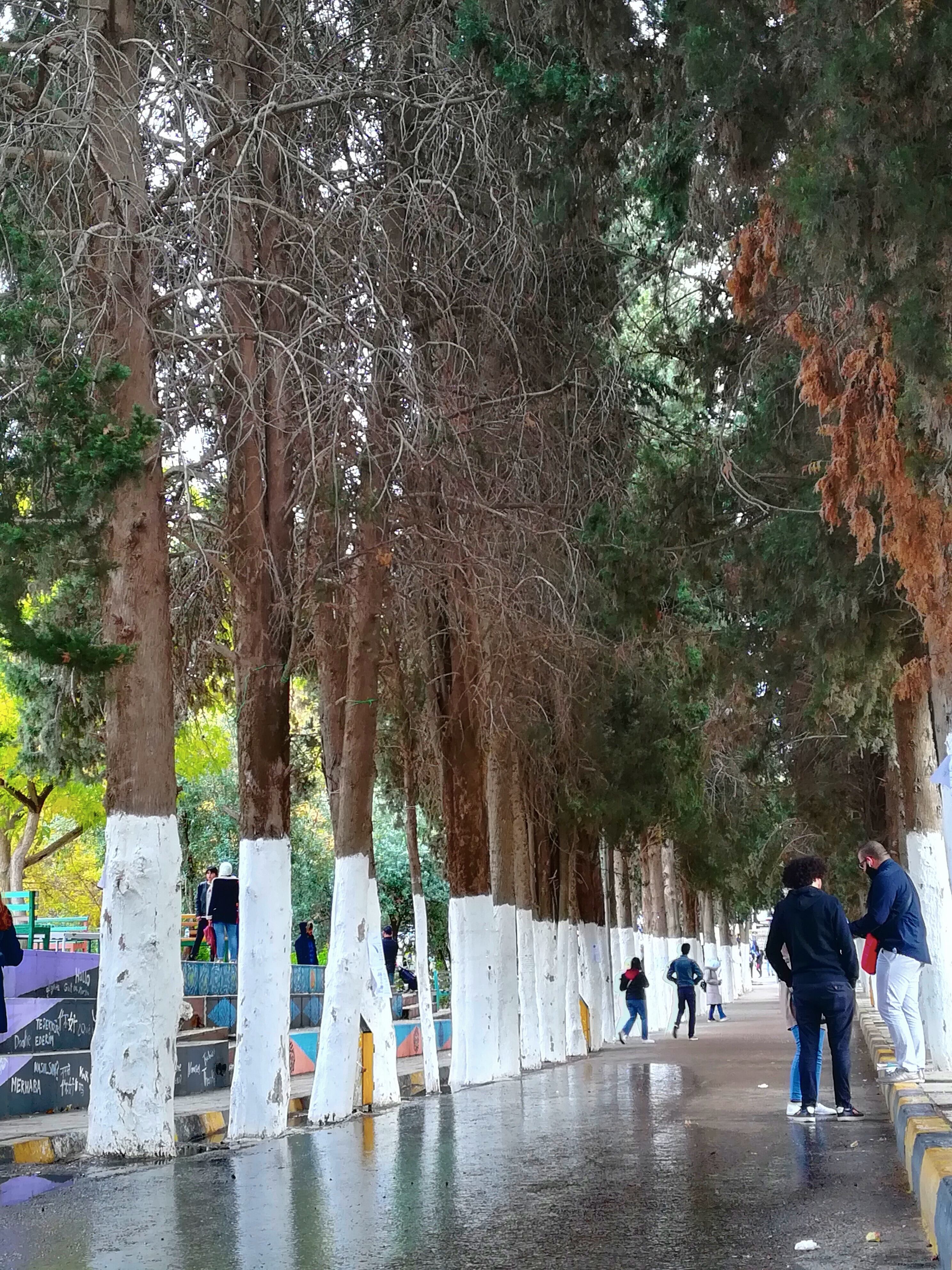 Faculty of Foreign Languages ​​Street in University of Jordan